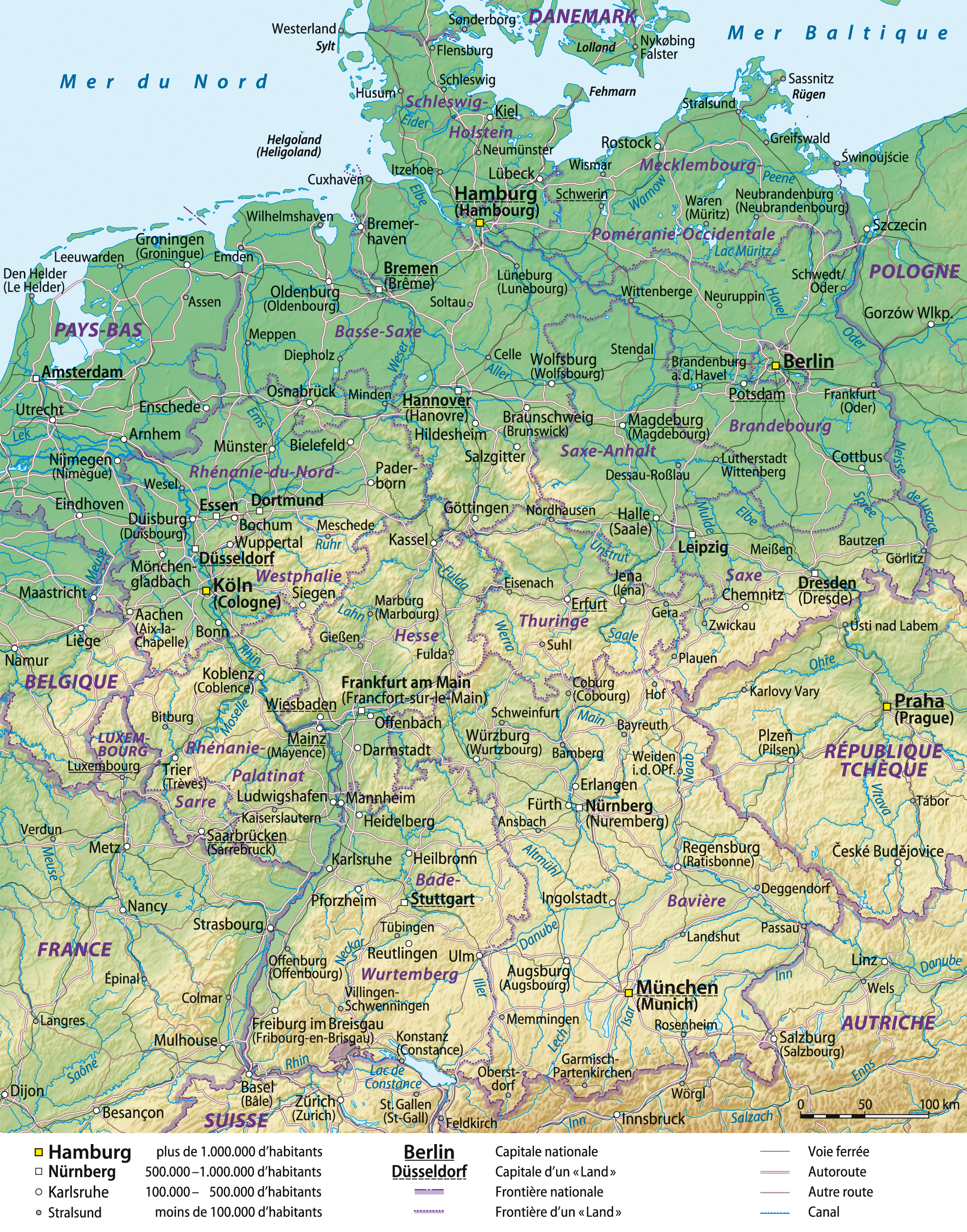 General map of Germany, French version